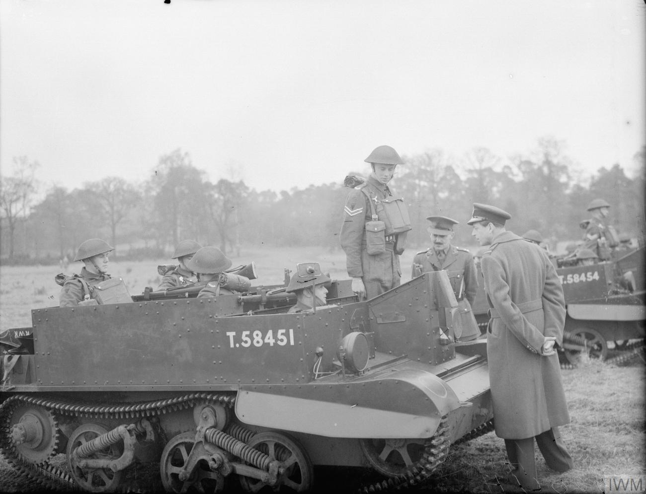 The British Army in the United Kingdom 1939-45 The Duke of Kent inspects Universal carriers of 1st Battalion, Queen's Own Royal West Kent Regiment, at Camberley, 16 March 1942.